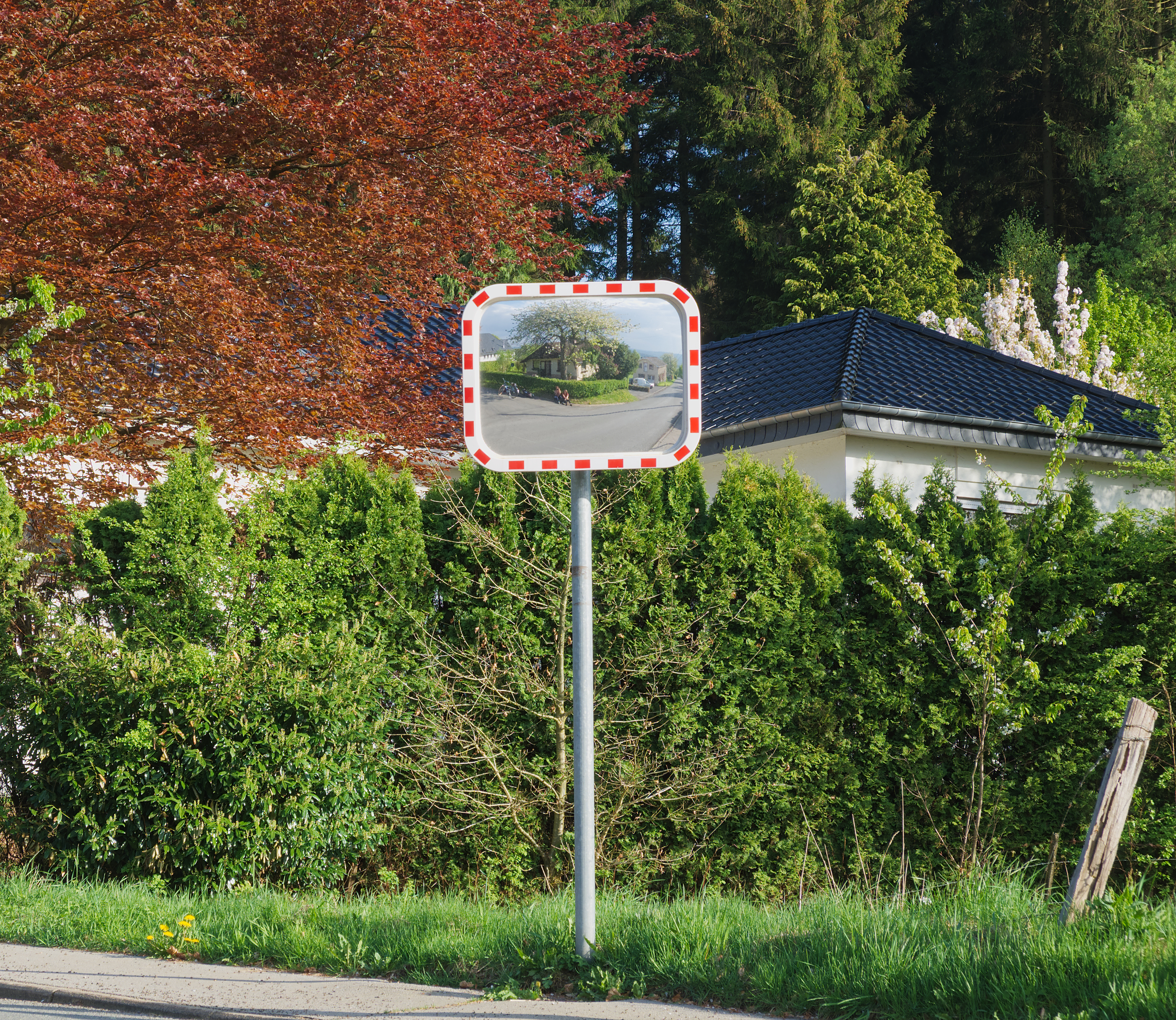 Traffic mirror in Sankt Vith, Belgium